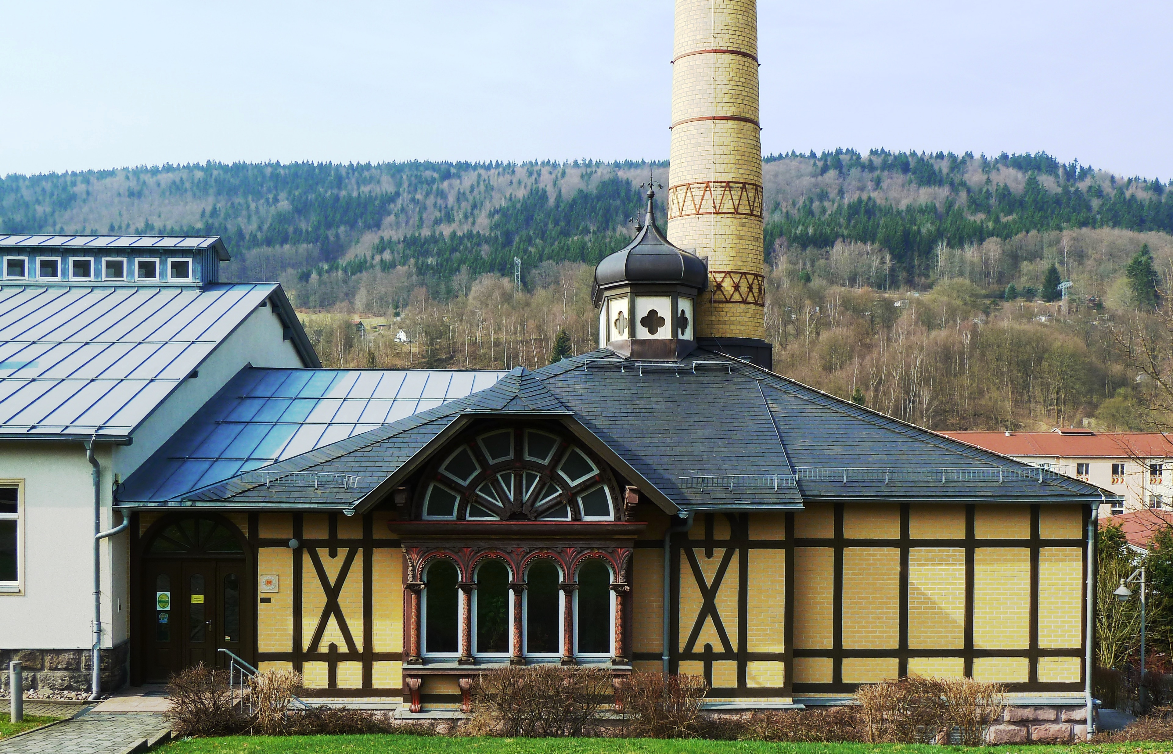 Museum Zella-Mehlis